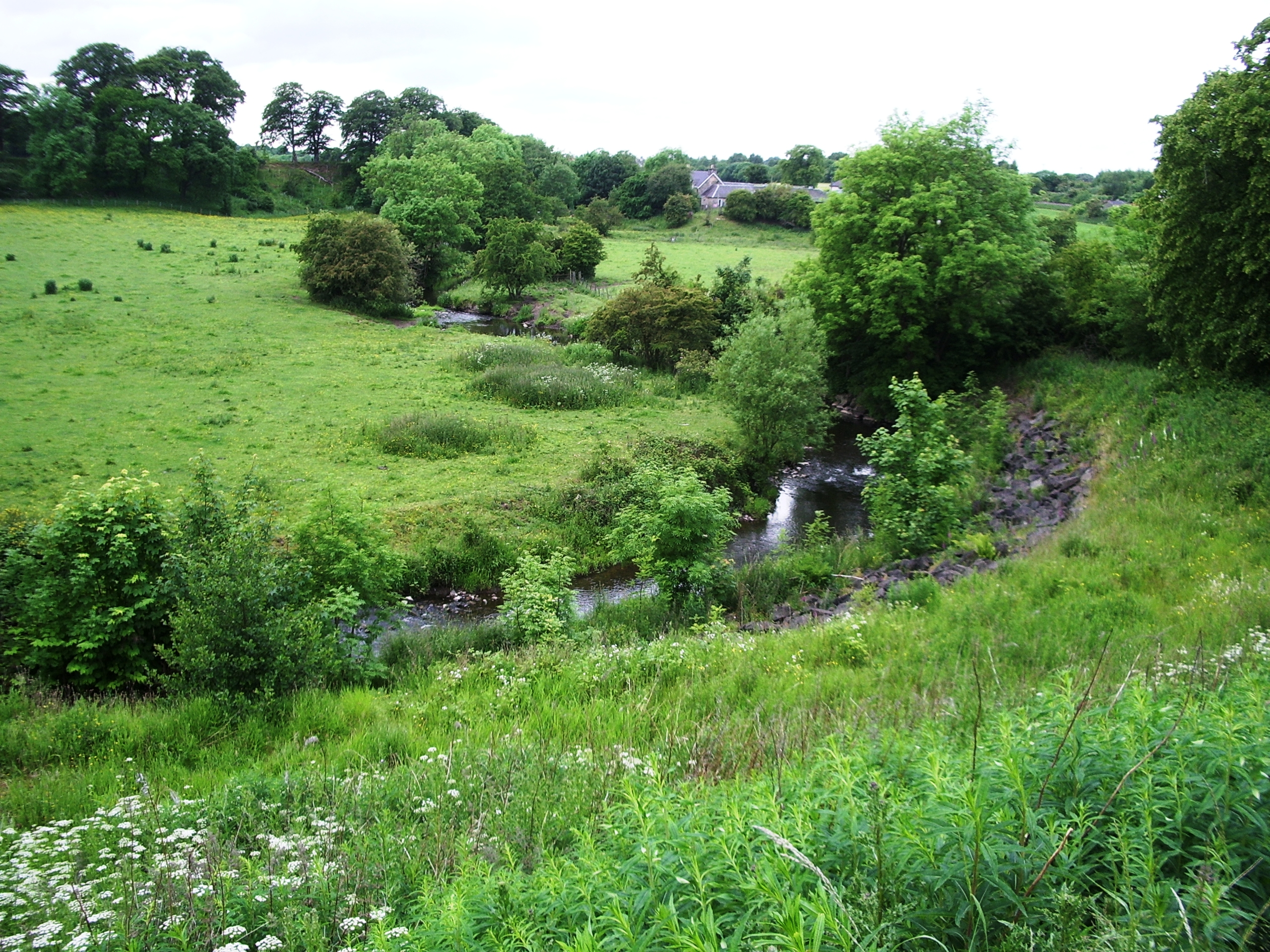 North Calder Water, as seen from the tow path of the Monkland Canal. Looking west from grid reference NS7634863052.